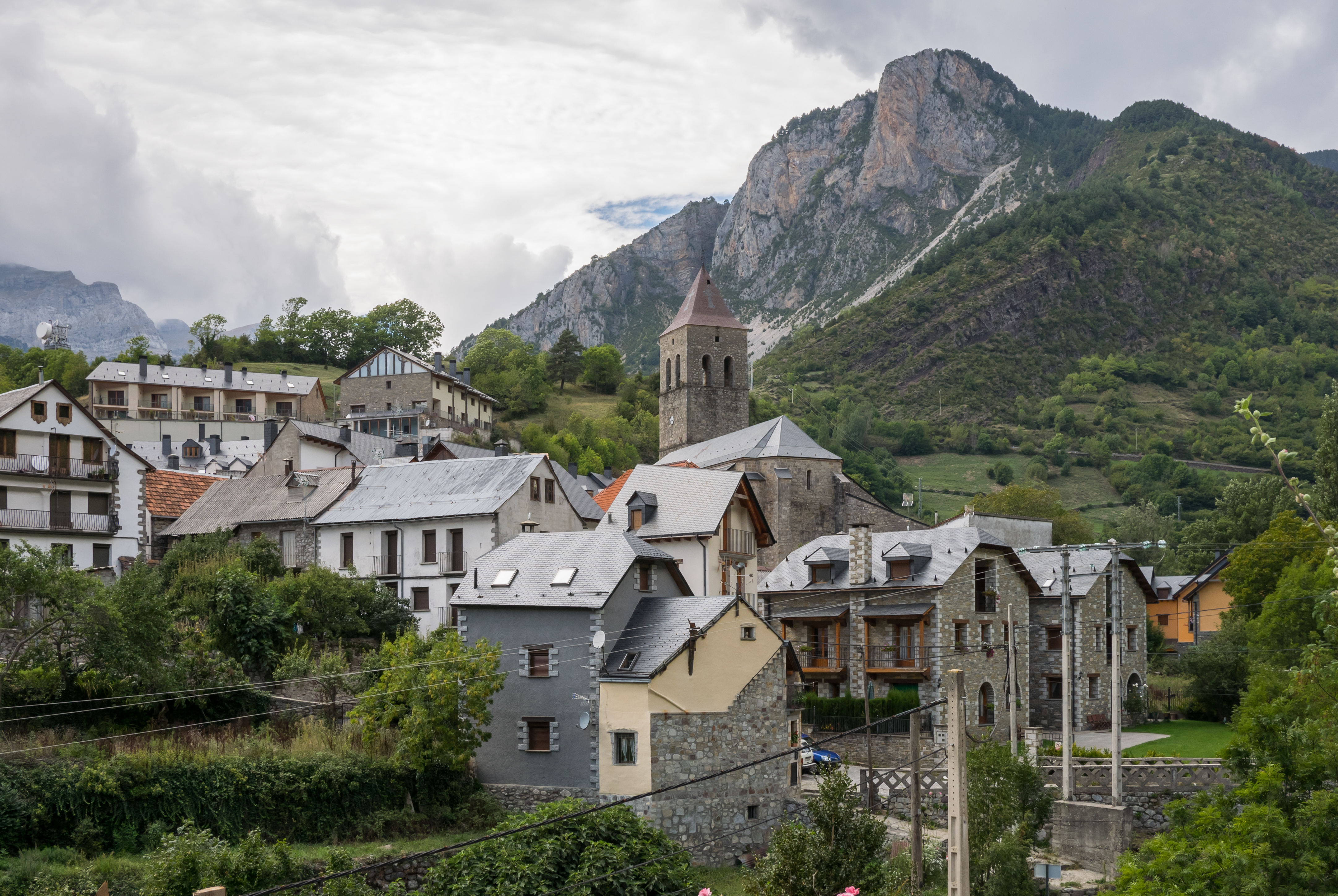 View of Bielsa. Sobrarbe, Huesca, Aragón, Spain